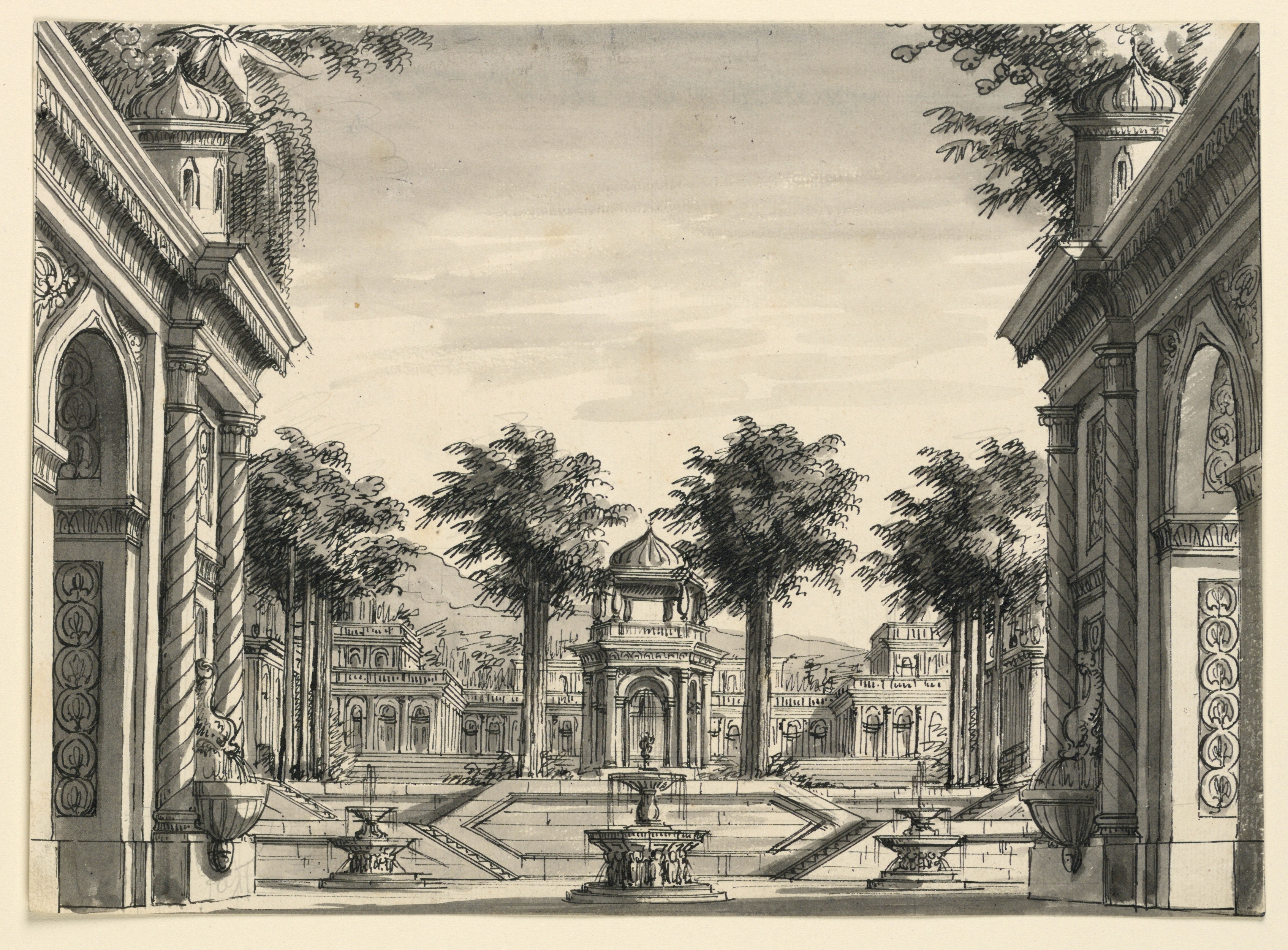 Horizontal rectangle. Indian palace garden with buildings; Ballo by Branbilla.